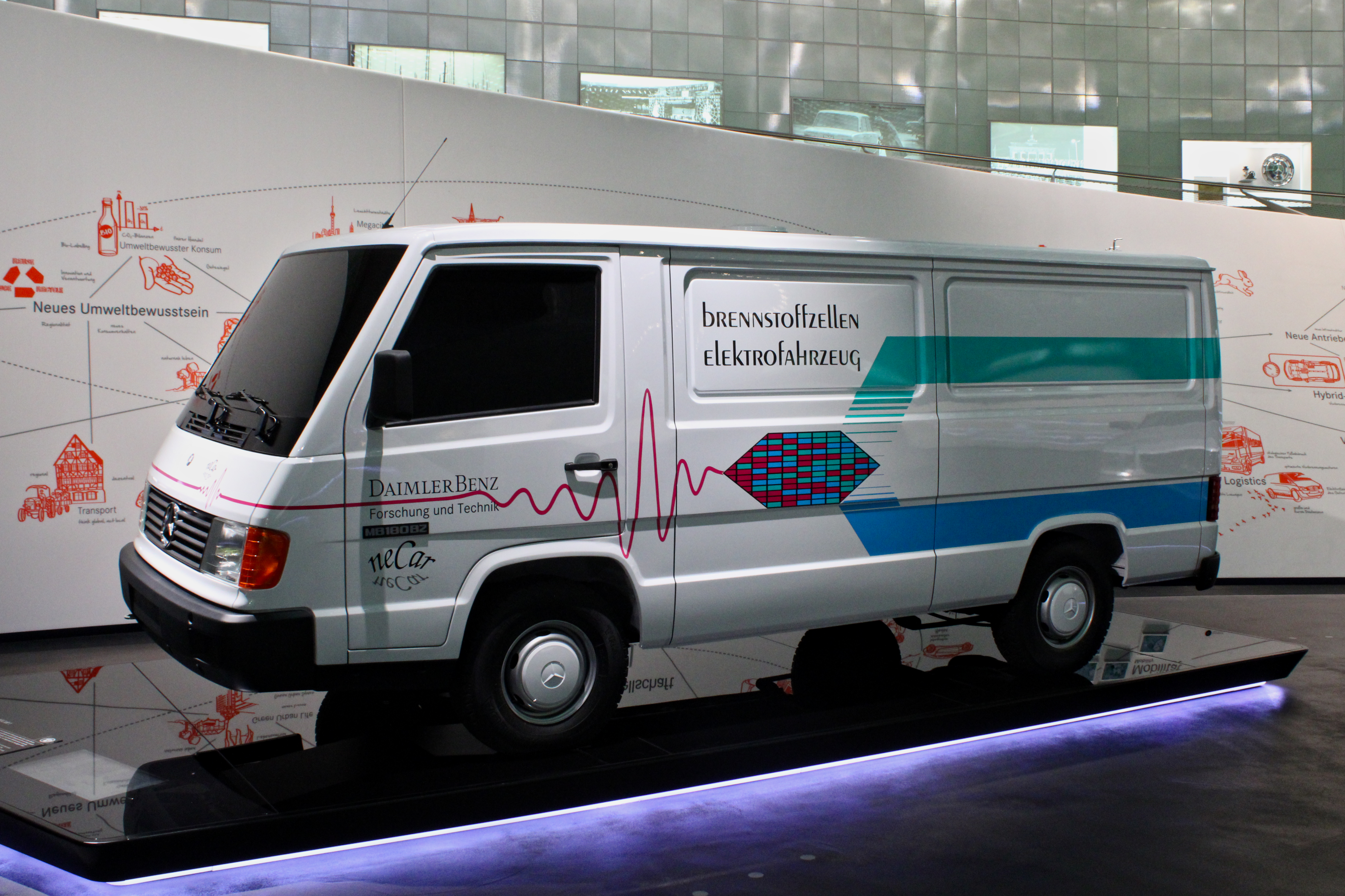 Mercedes-Benz Necar 1 in the Mercedes-Benz Museum in December 2018